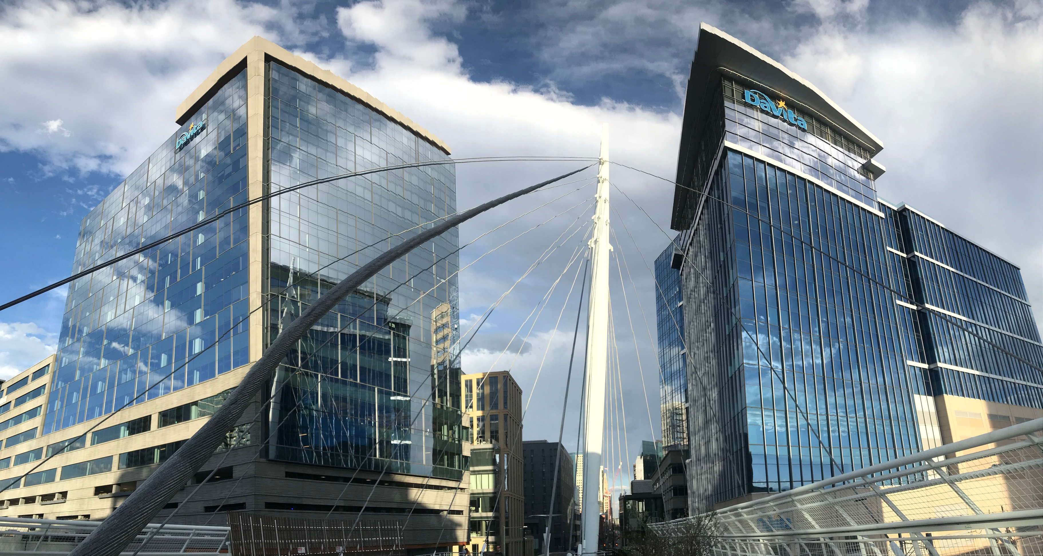 Both of DaVita Inc.'s headquarters buildings, located in Denver, Colorado